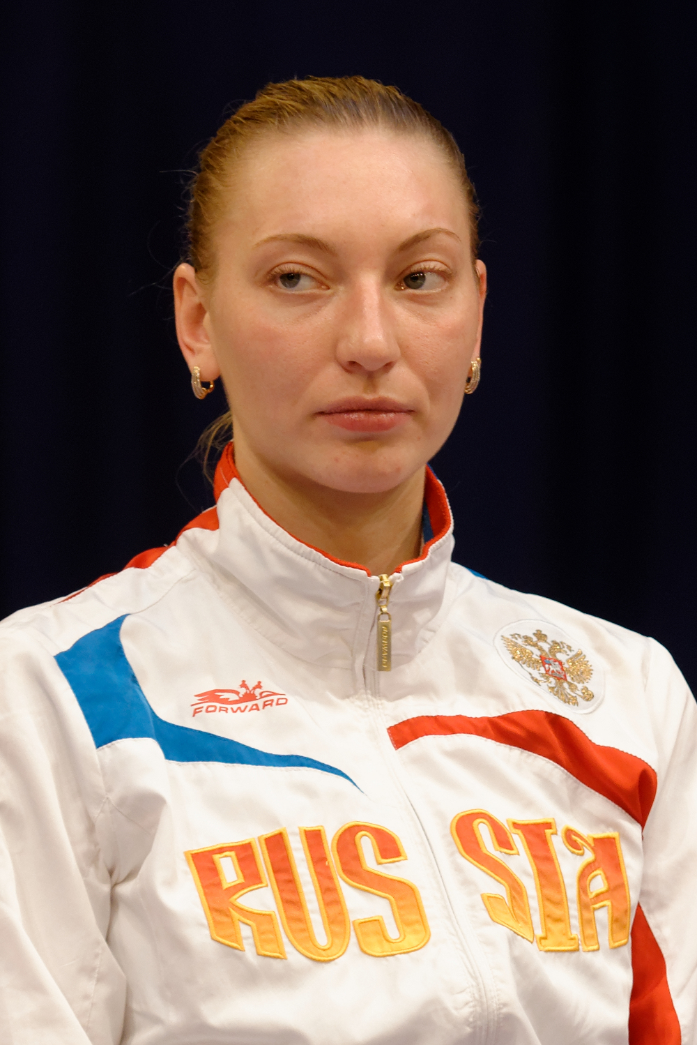 Tatiana Andrushina at the trophy presentation of the Challenge international de Saint-Maur 2013, women's épée World Cup tournament.